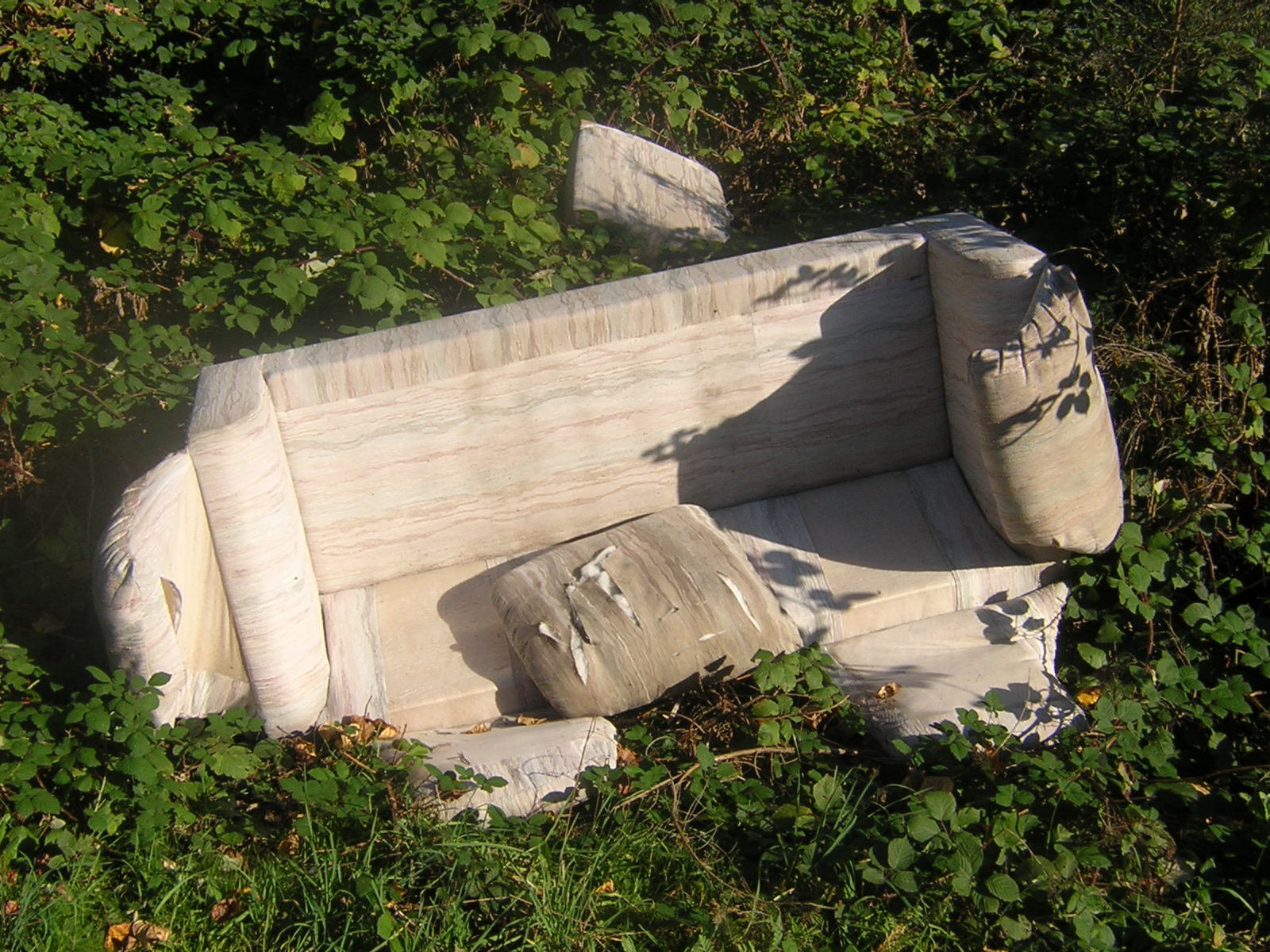 couch, thrown away